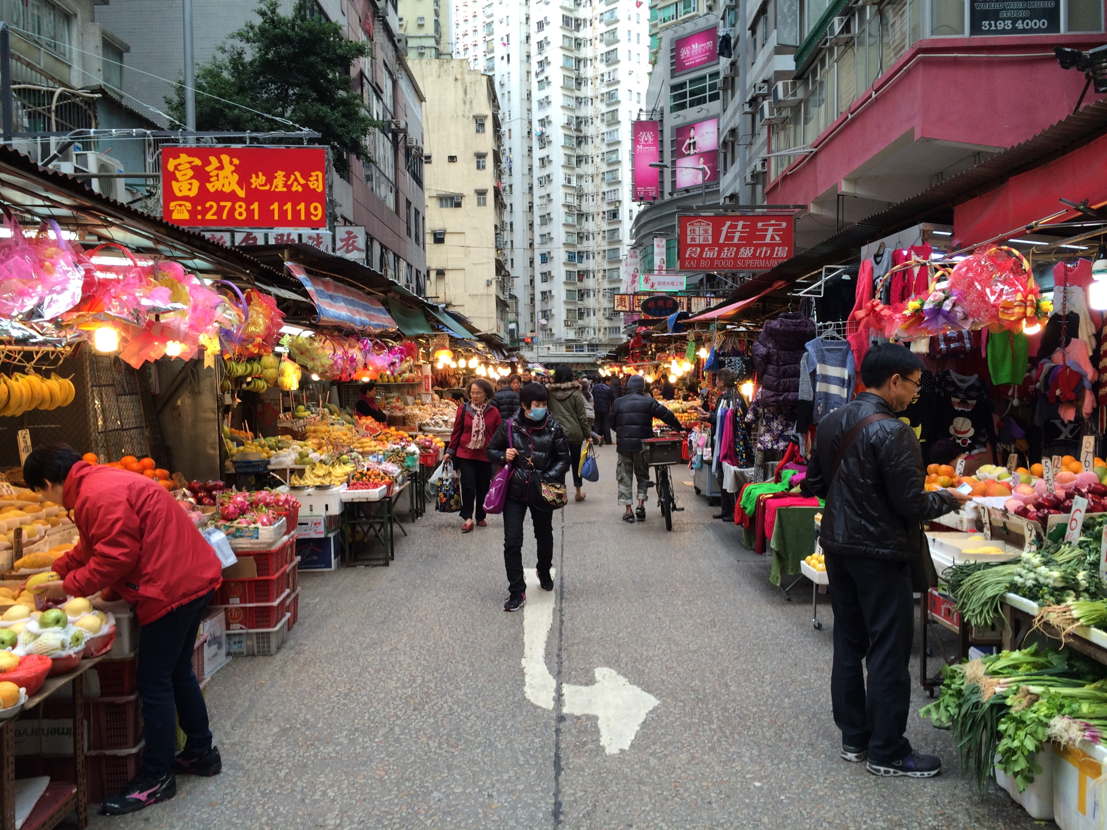 Yin Chong Street